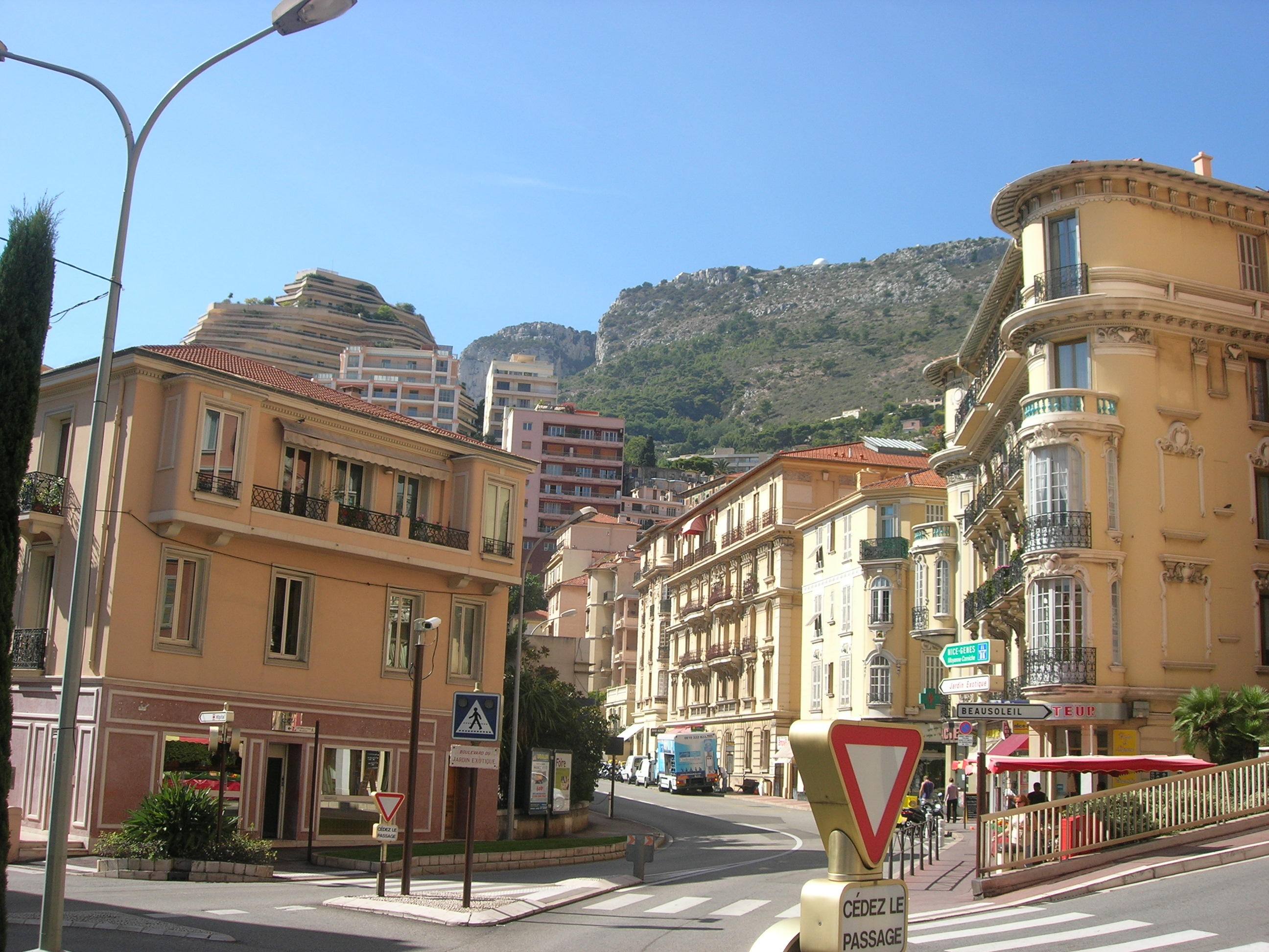 Lamarck Square, Moneghetti, Monaco. October 2007.